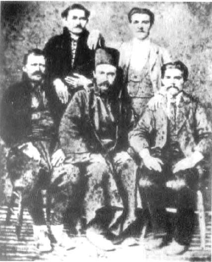 Teachers Vasil Busherov and Hristo gahsevski among other Orkhanie citizens, second half of XIX century